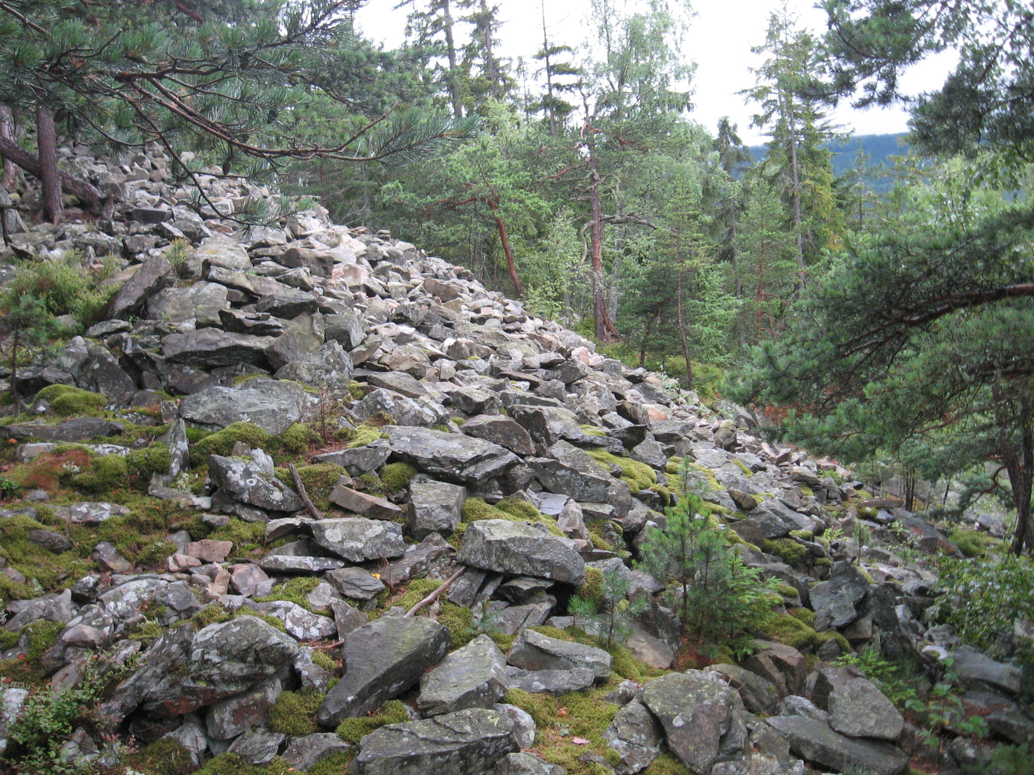 Giant Castle (Obří hrad), ruins of Celtic fortified settlement on the hill Valy above the hamlet of Popelná in the Bohemian Forest (Šumava).